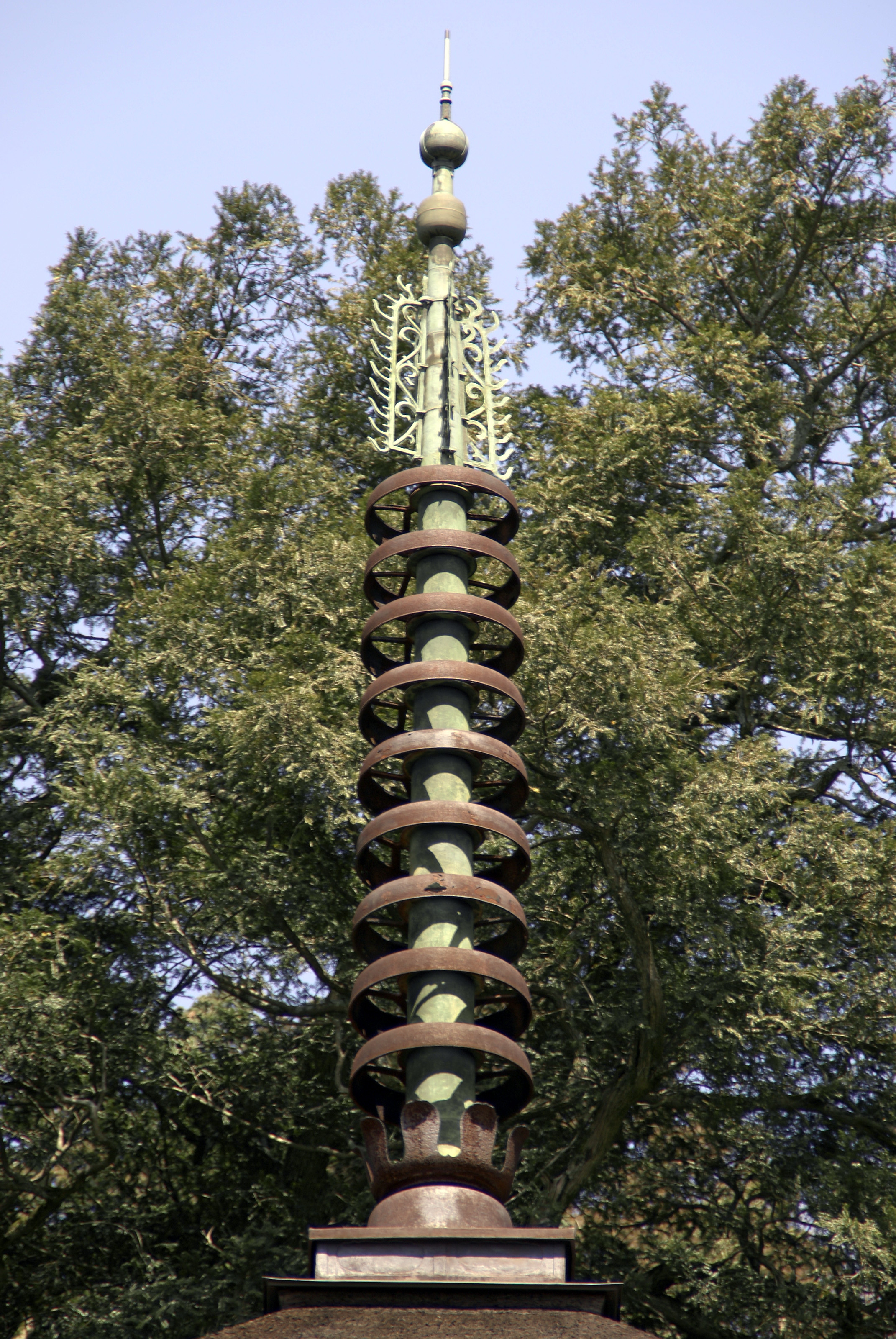 Rokujo_hachiman-jinja's Pagoda is Japan's Important Cultural Property in Kobe, Hyogo prefecture, Japan